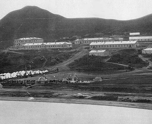 Slavyanka, Primorsky krai, Russia. 1900.